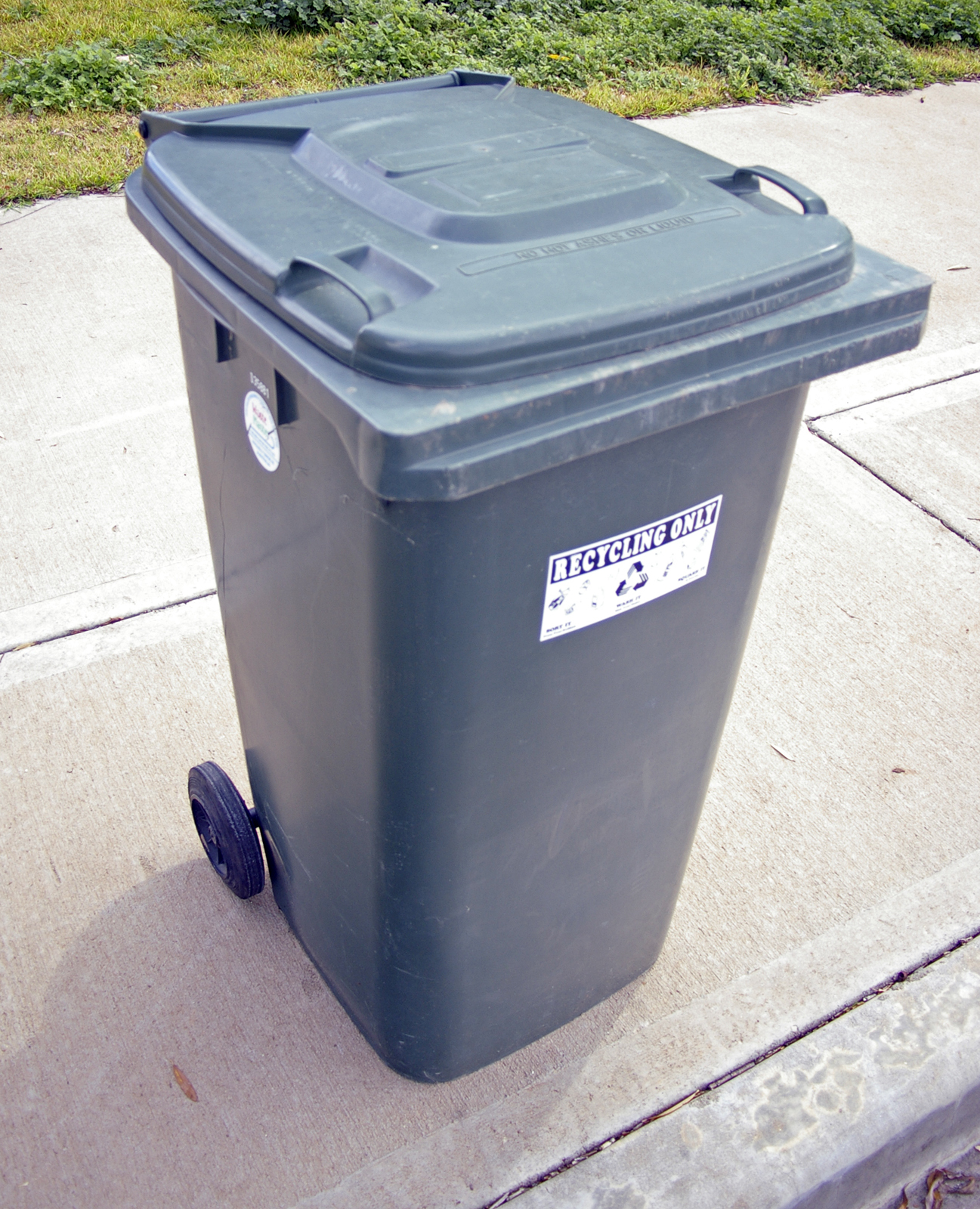 Junee Shire Council 240 litre recycling bin.